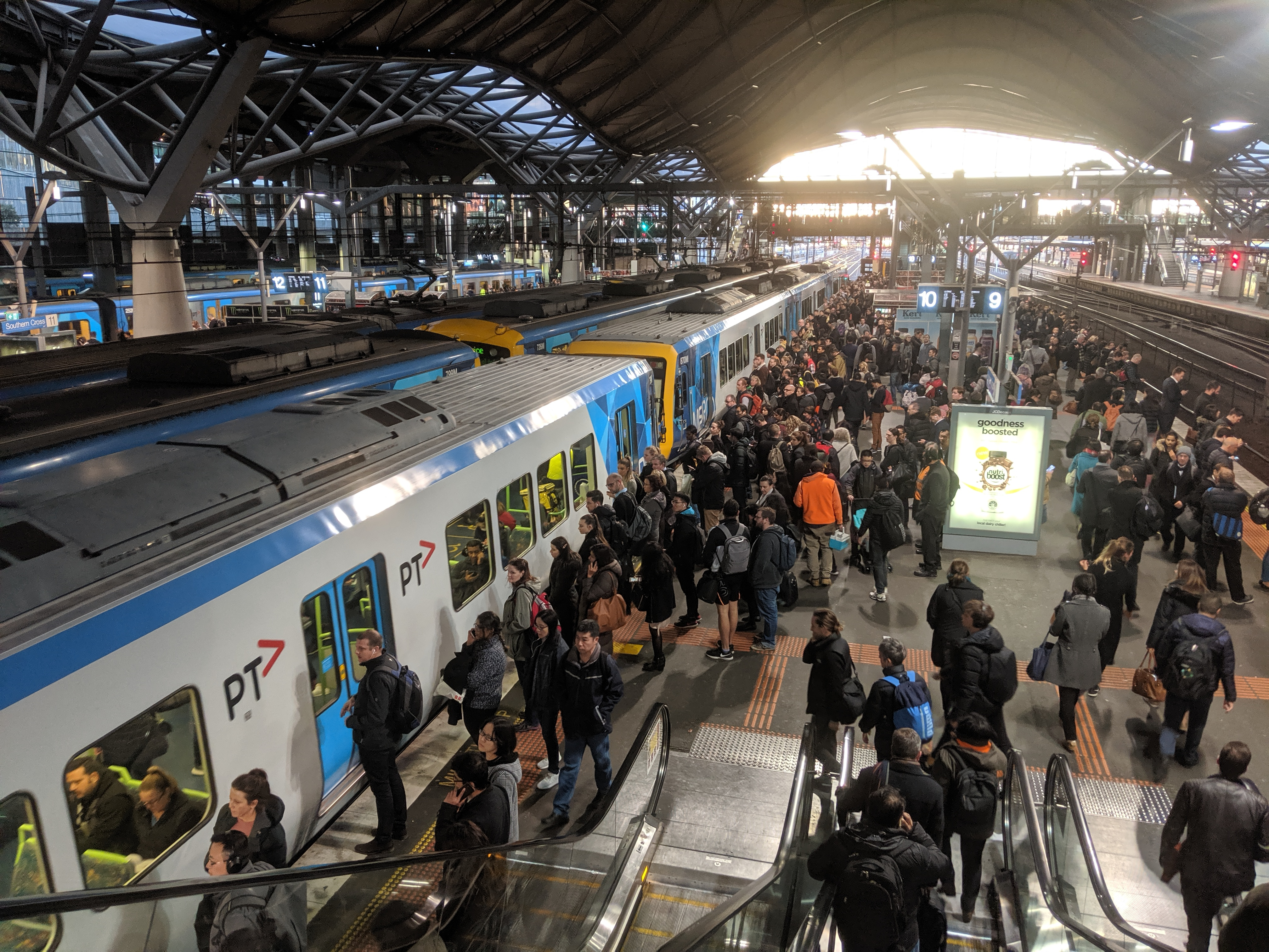 Melbourne Train Rush Hour